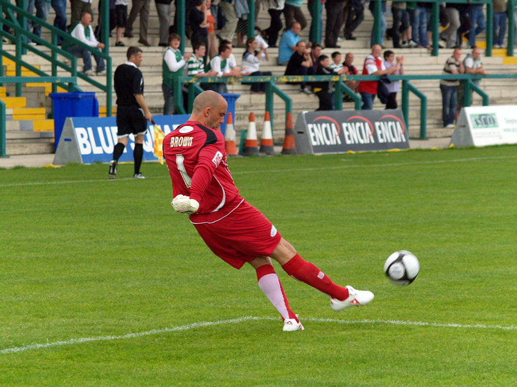 Bury FC goalkeeper Wayne Brown takes a goal kick during the Northwich Victoria vs. Bury pre-season friendly at The Marston’s Arena, home of Northwich Victoria FC. Saturday 2nd August 2008